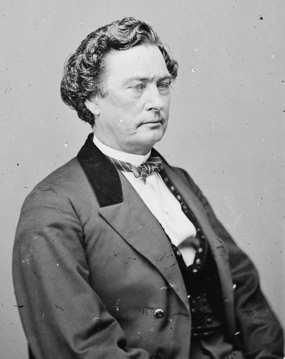 Richard Yates, governor of Illinois during the American Civil War.